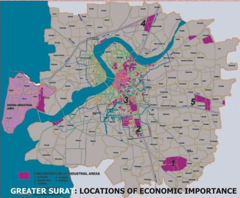 surat